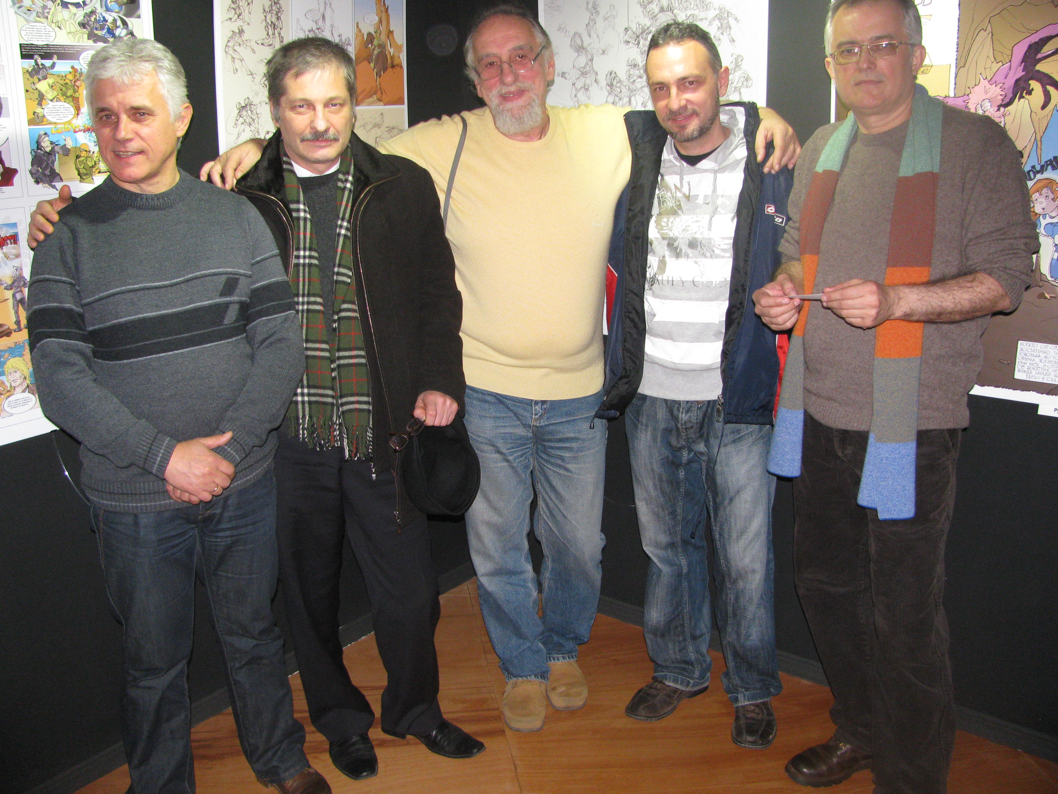 Assen Kozhuharov (second from left to right) among other authors of comics - exhibition „Over the Rainbow“, Varna, Bulgaria, 2013